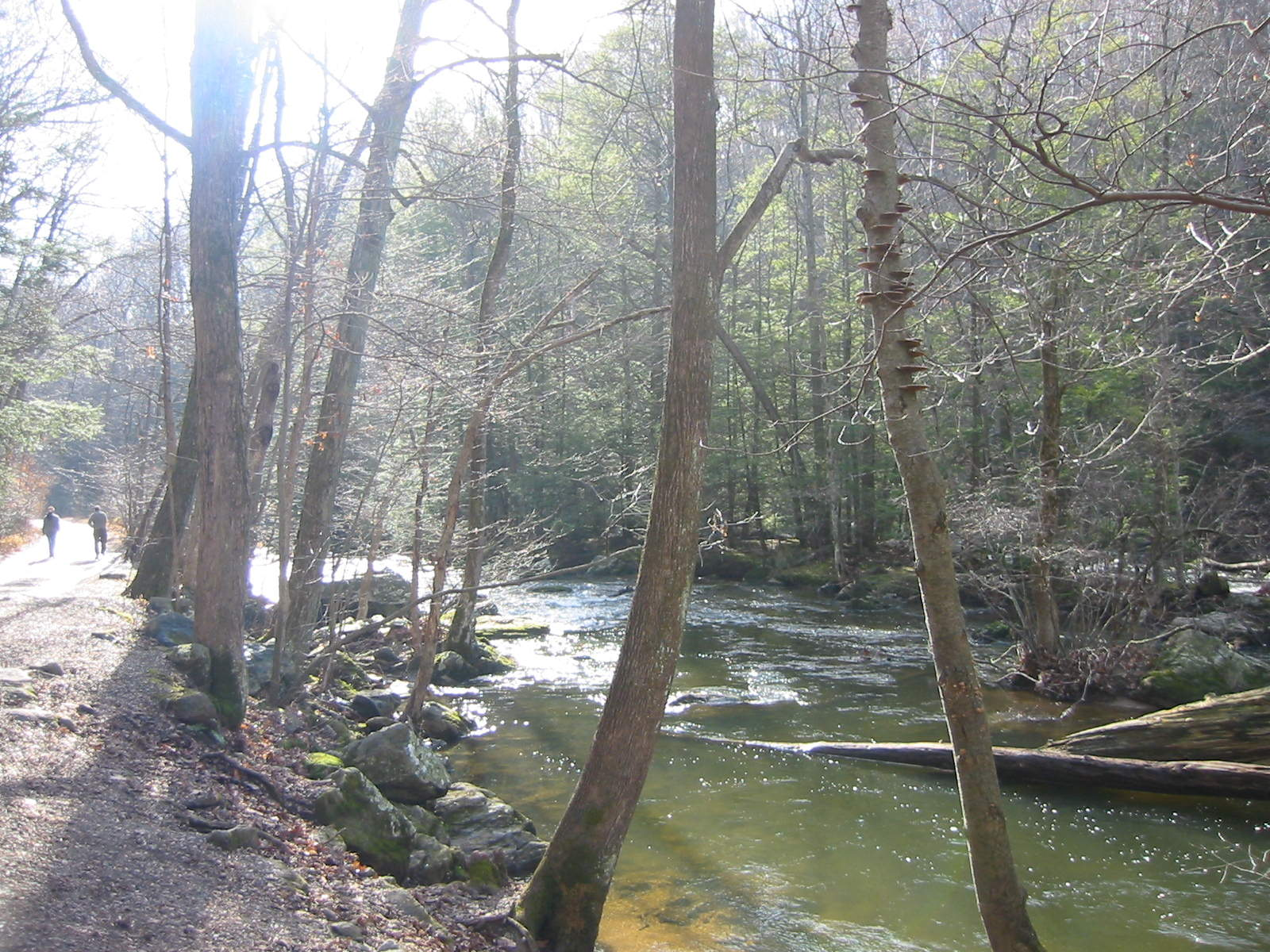 I took this picture and release it to the public domain for use by Wikipedia.